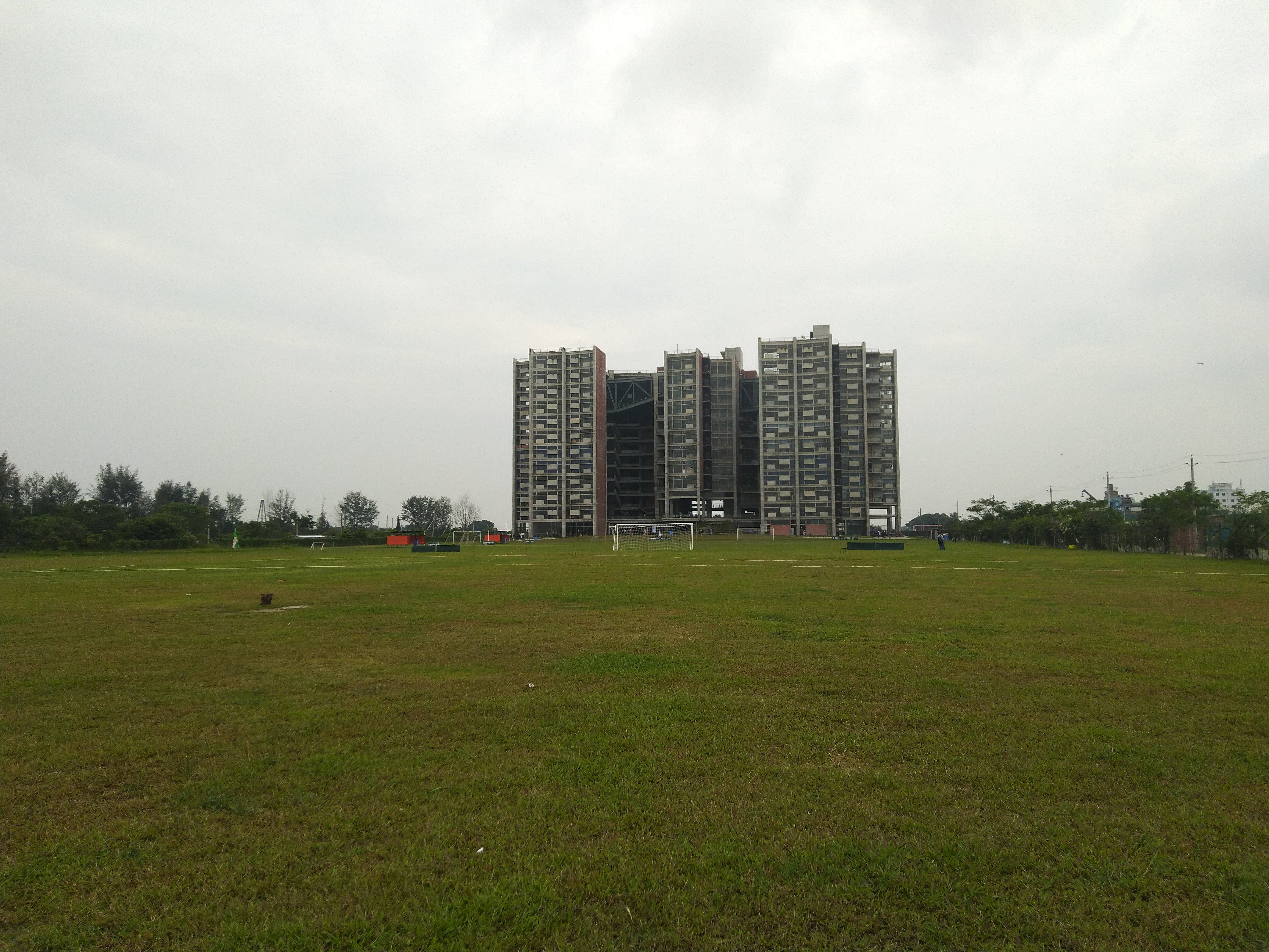 UIU Campus